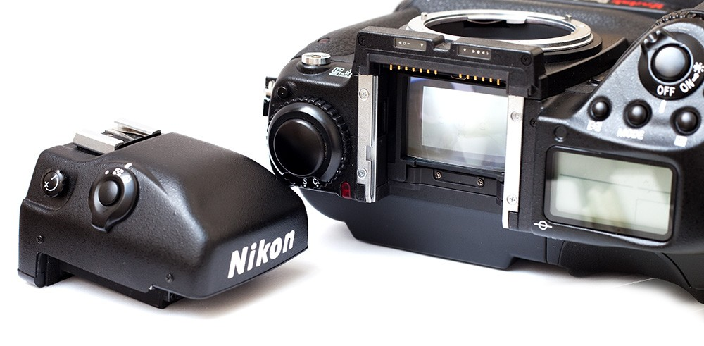 The Nikon F5's standard DP-30 prism, removed. Camera actually a Kodak DCS 760, wit h a Nikon F5 chassis.